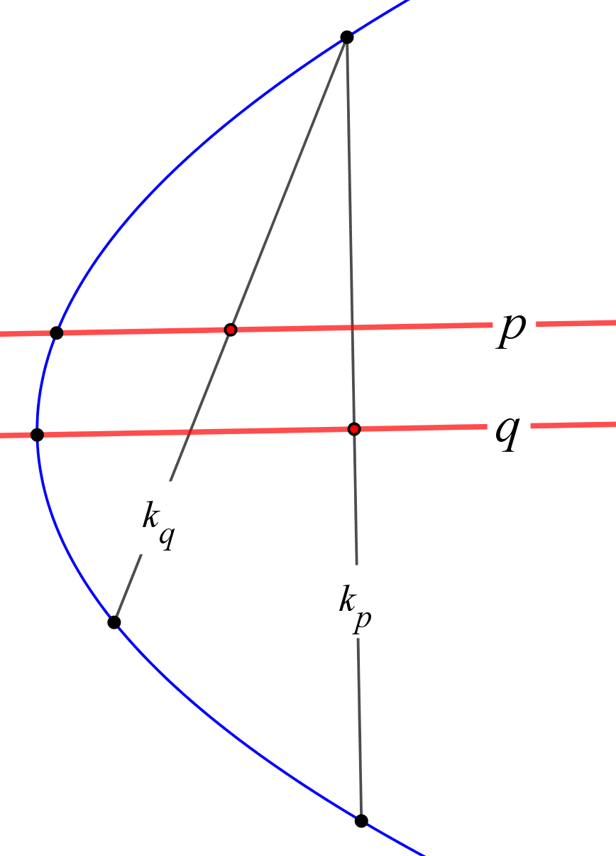 Diameter